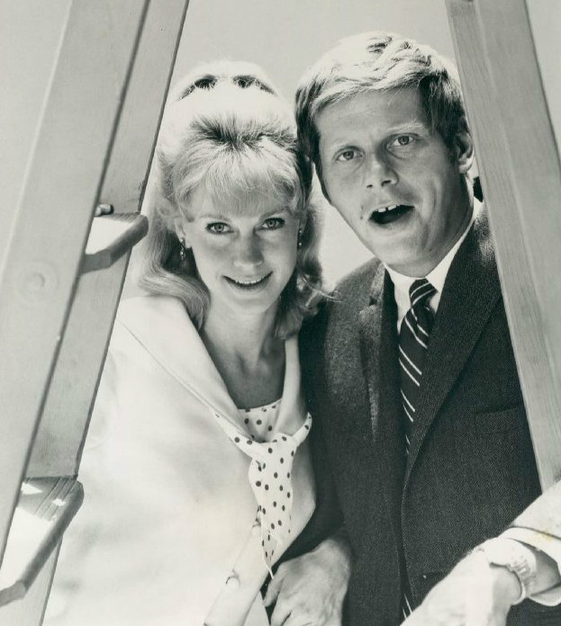 Publicity photo from the television show That's Life. Pictured are E. J. Peaker and Robert Morse.